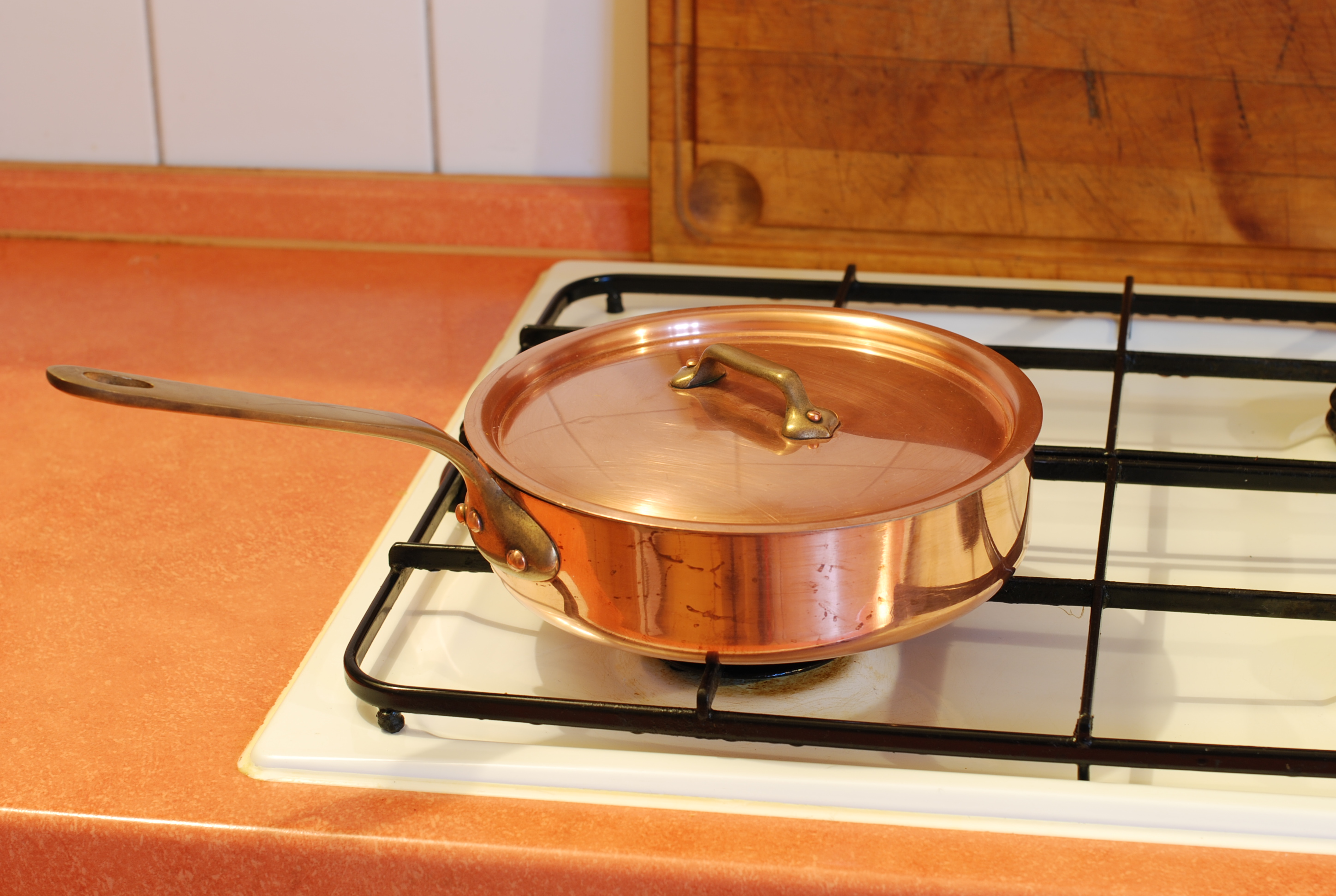 Copper pan, in Germany called Sautoir, in France called Plat à sauter. Diametre 20 cm. Manufacturer: Mauviel. Inner layer is tin.